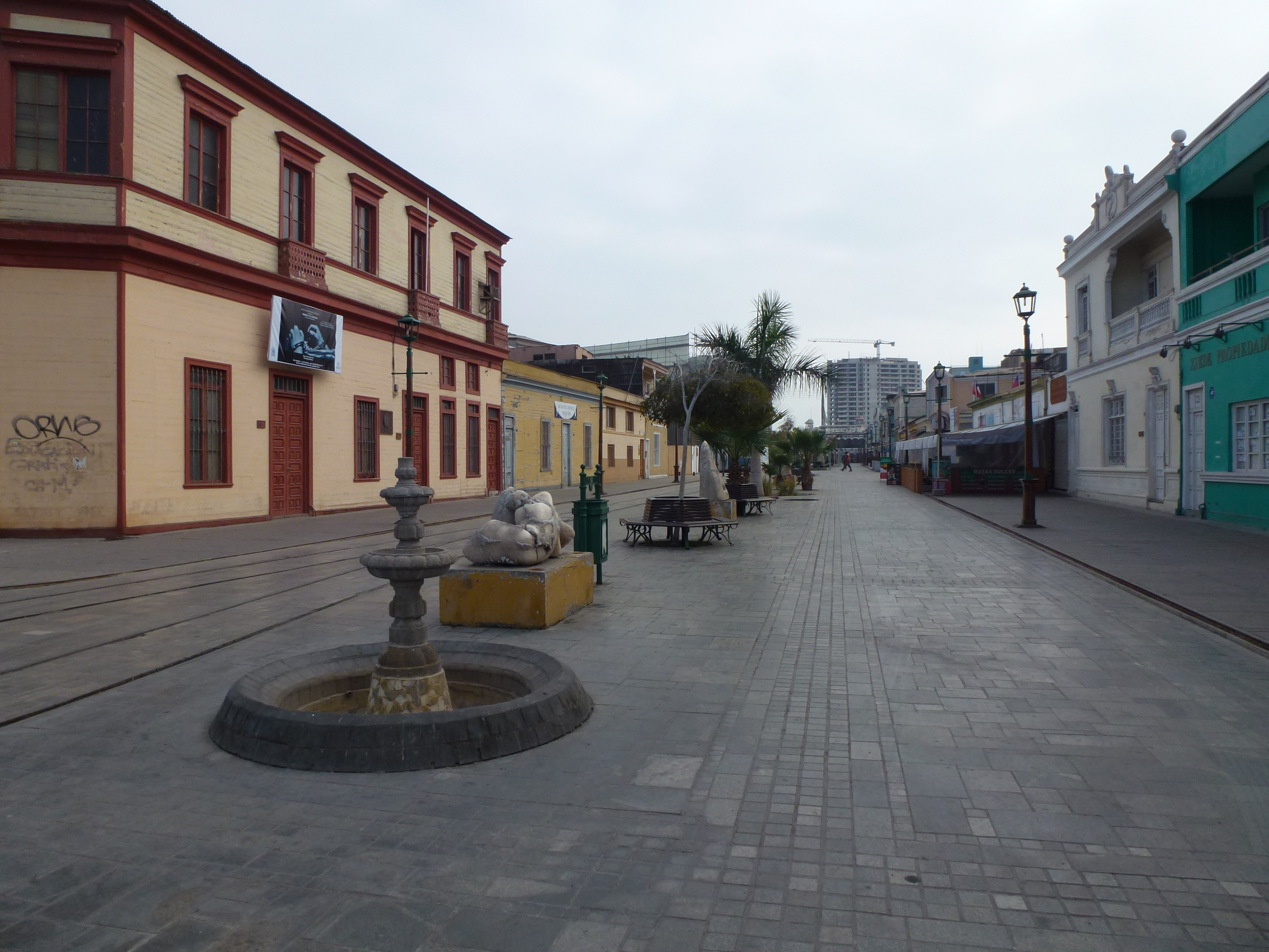 This is a photo of a national monument in Chile: 527